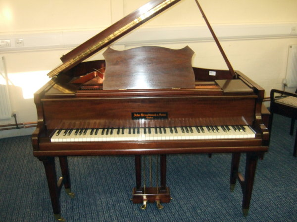 A 1929 broadwood baby grand piano in mahogany satin finish.